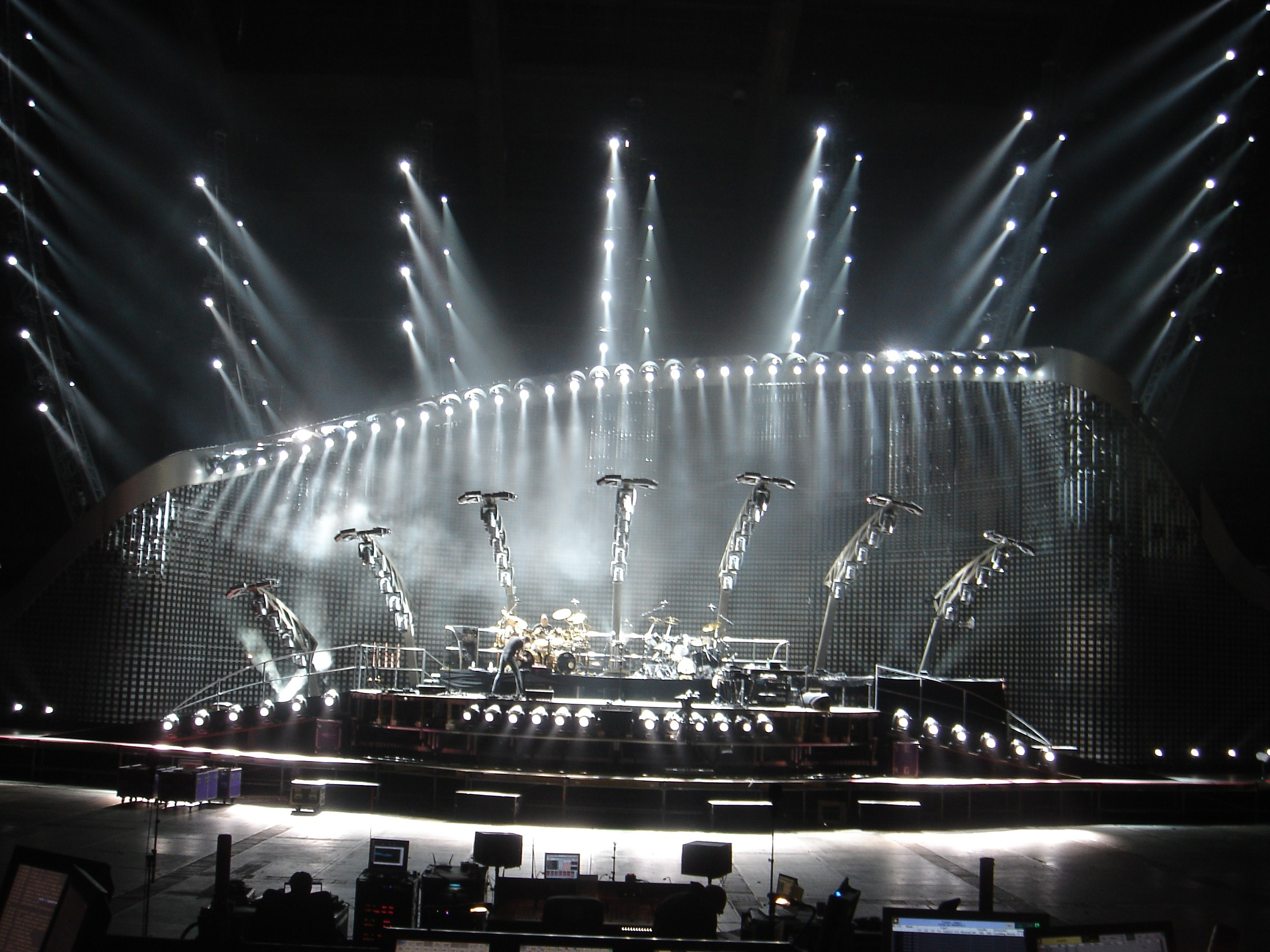 Genesis Tour Rehearsals 2007